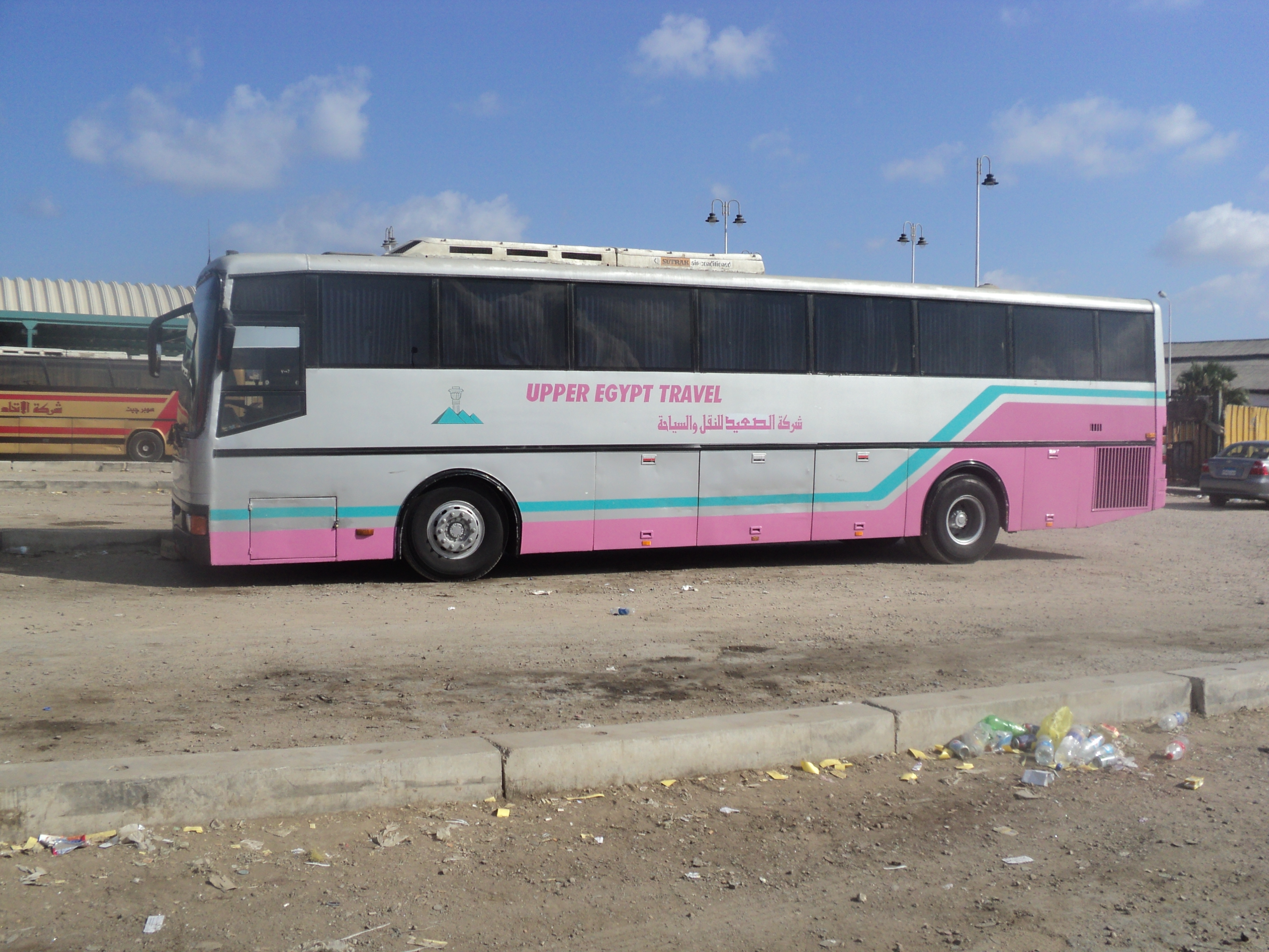 An Upper Egypt Travel bus in Alexandria's Bus station (El Maw'af El Gedid) at Moharem Bey.